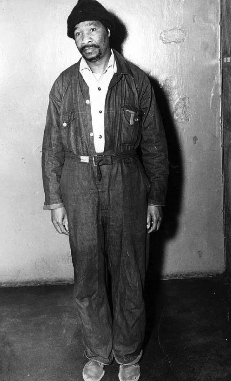 Govan Mbeki's mugshot taken by the police during the Lilies Leaf Farm raid in July 1963.